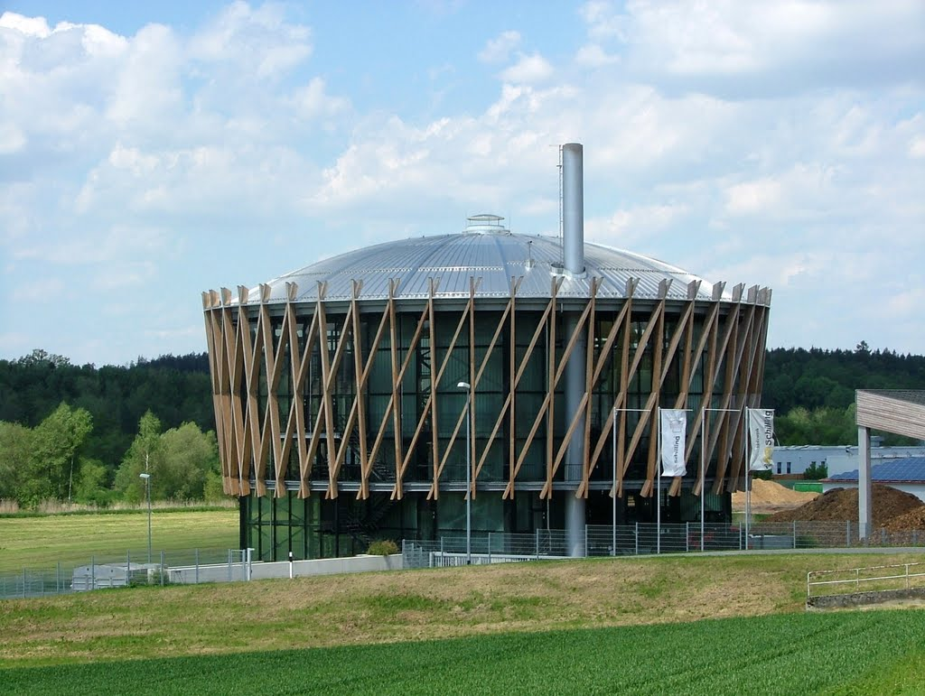 Biomass power station Schwendi